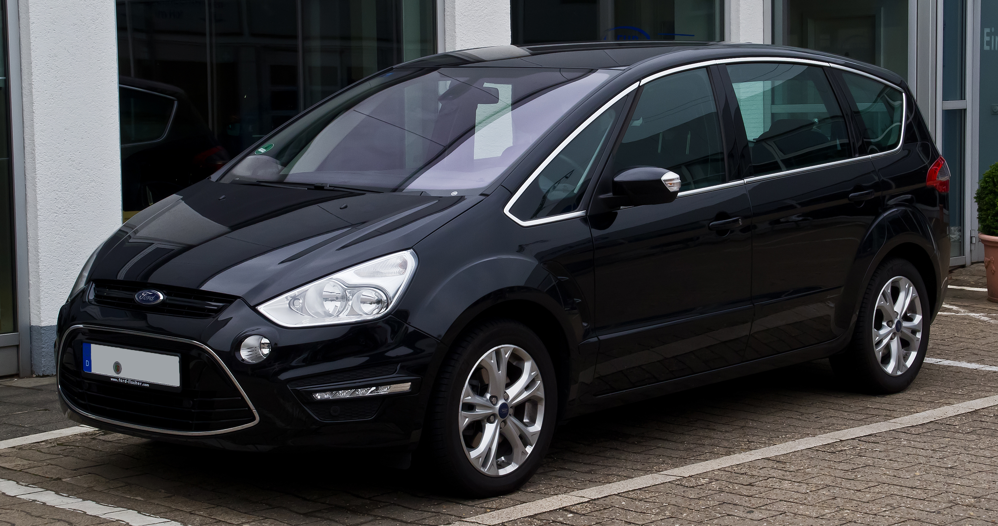 Ford S-Max 1.6 EcoBoost Titanium (Facelift)